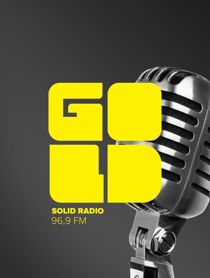 Gold FM current logo